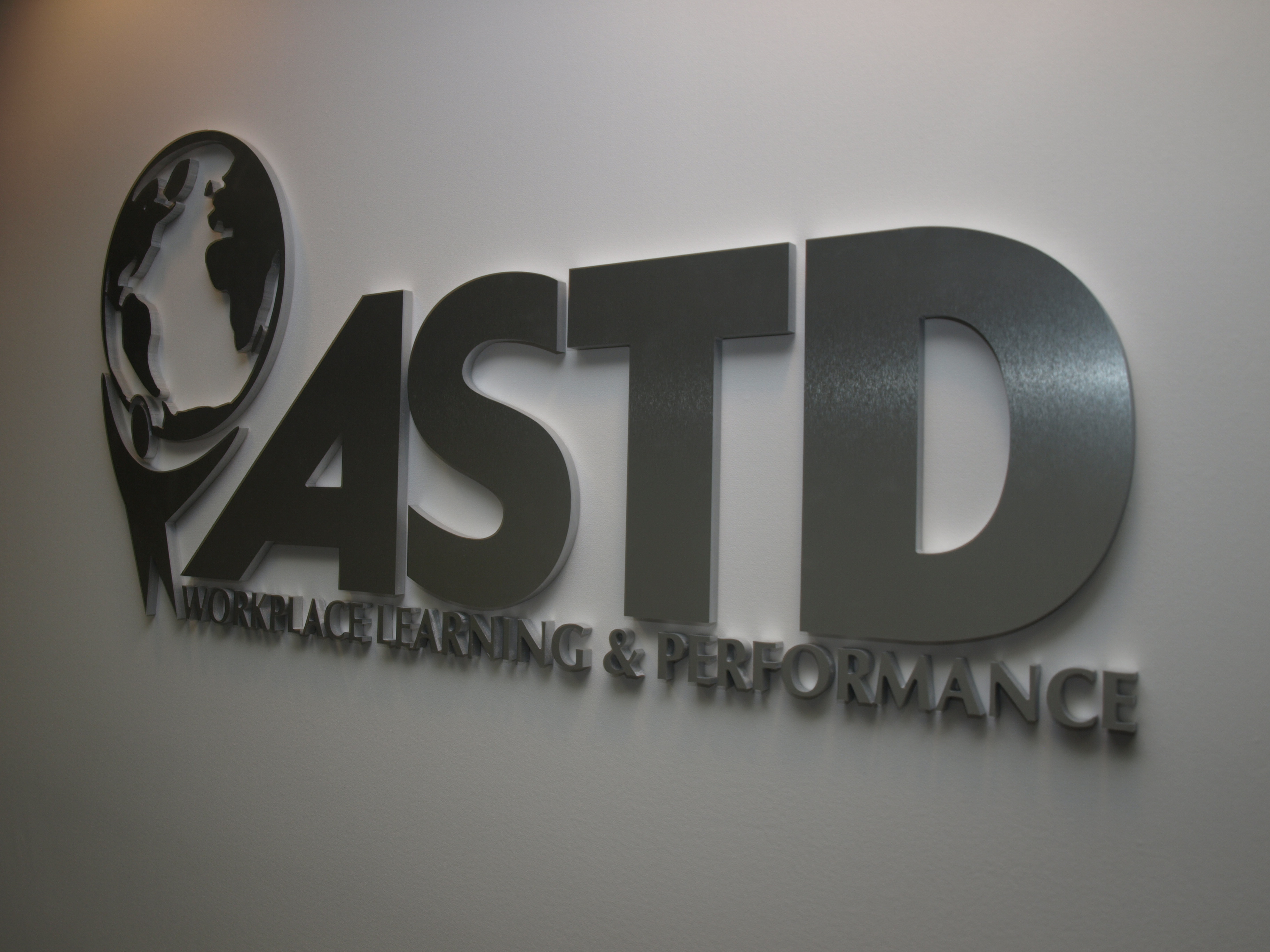 Photograph of ASTD logo at headquarters